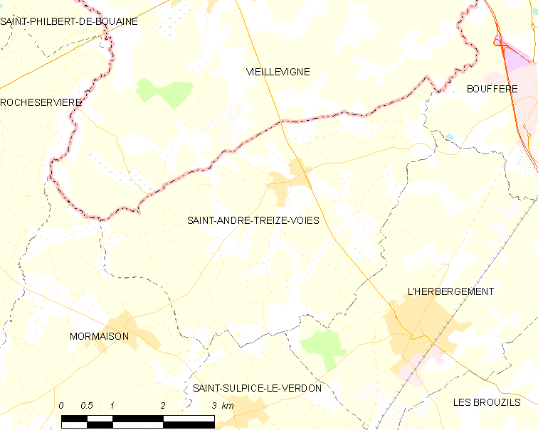 Map of French municipality Saint-André-Treize-Voies